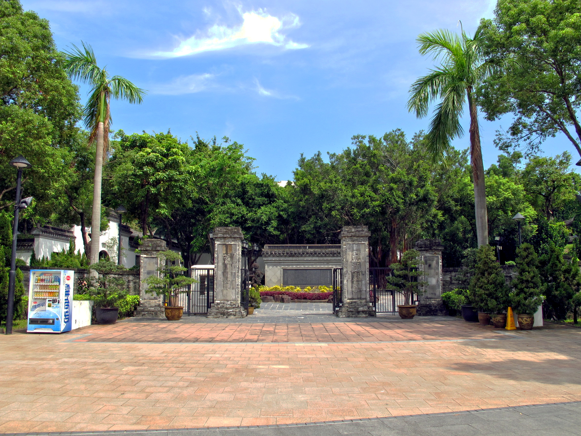 Kowloon Walled City Park Enterance